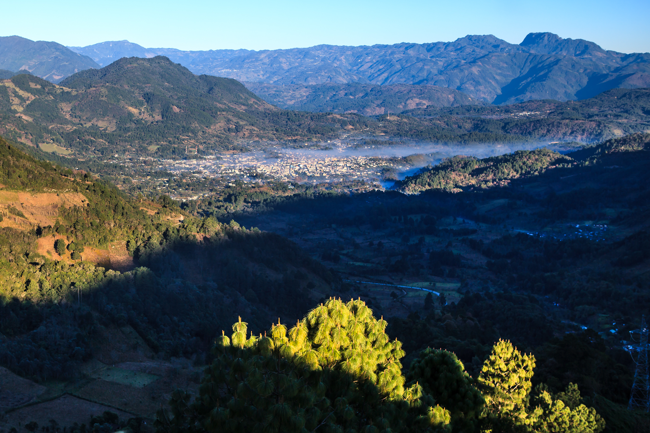 last look back at Nebaj